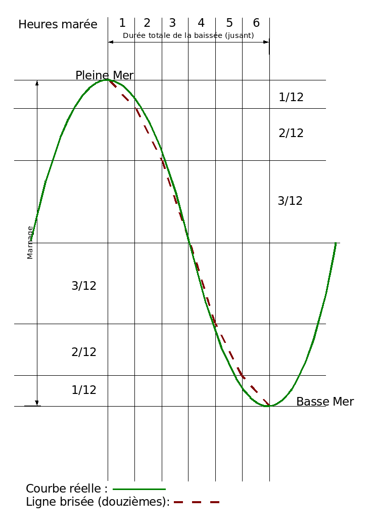 Water height simple calculation